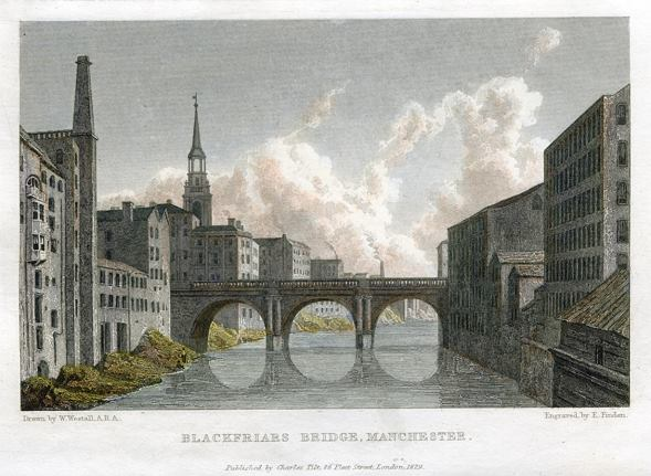 "Blackfriars Bridge, Manchester" engraved by E.Finden after a picture by W.Westall, published in Great Britain Illustrated, 1830. Steel engraving with recent hand colour. Size 14.5 x 10.5 cms. Ref F1780